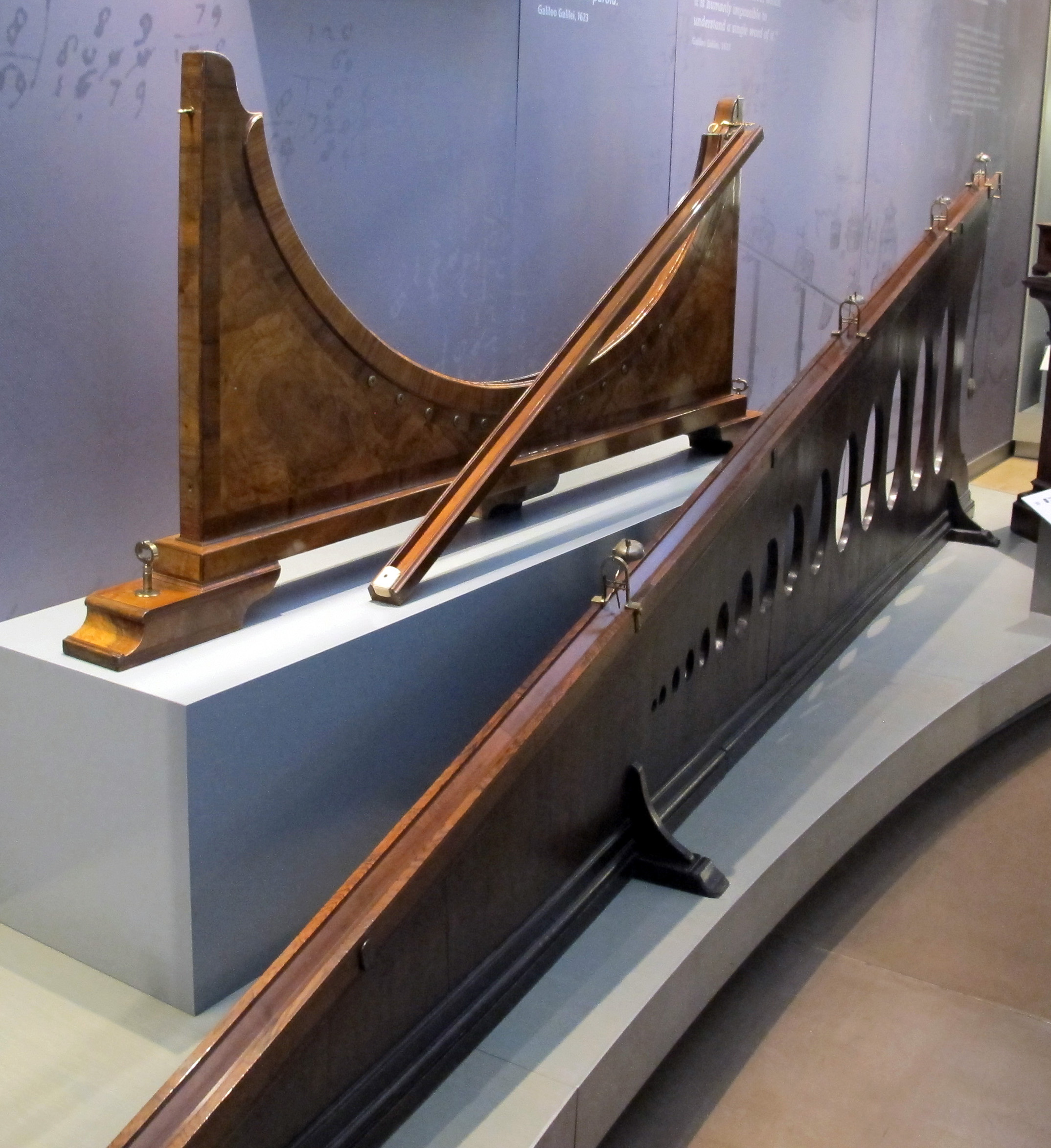 Brachistochronous fall.